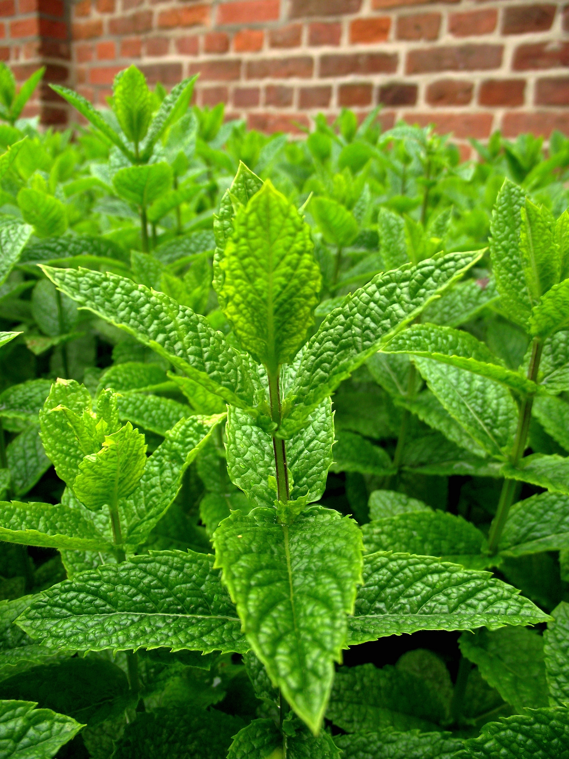 A green field of Mentha × piperita (Peppermint)